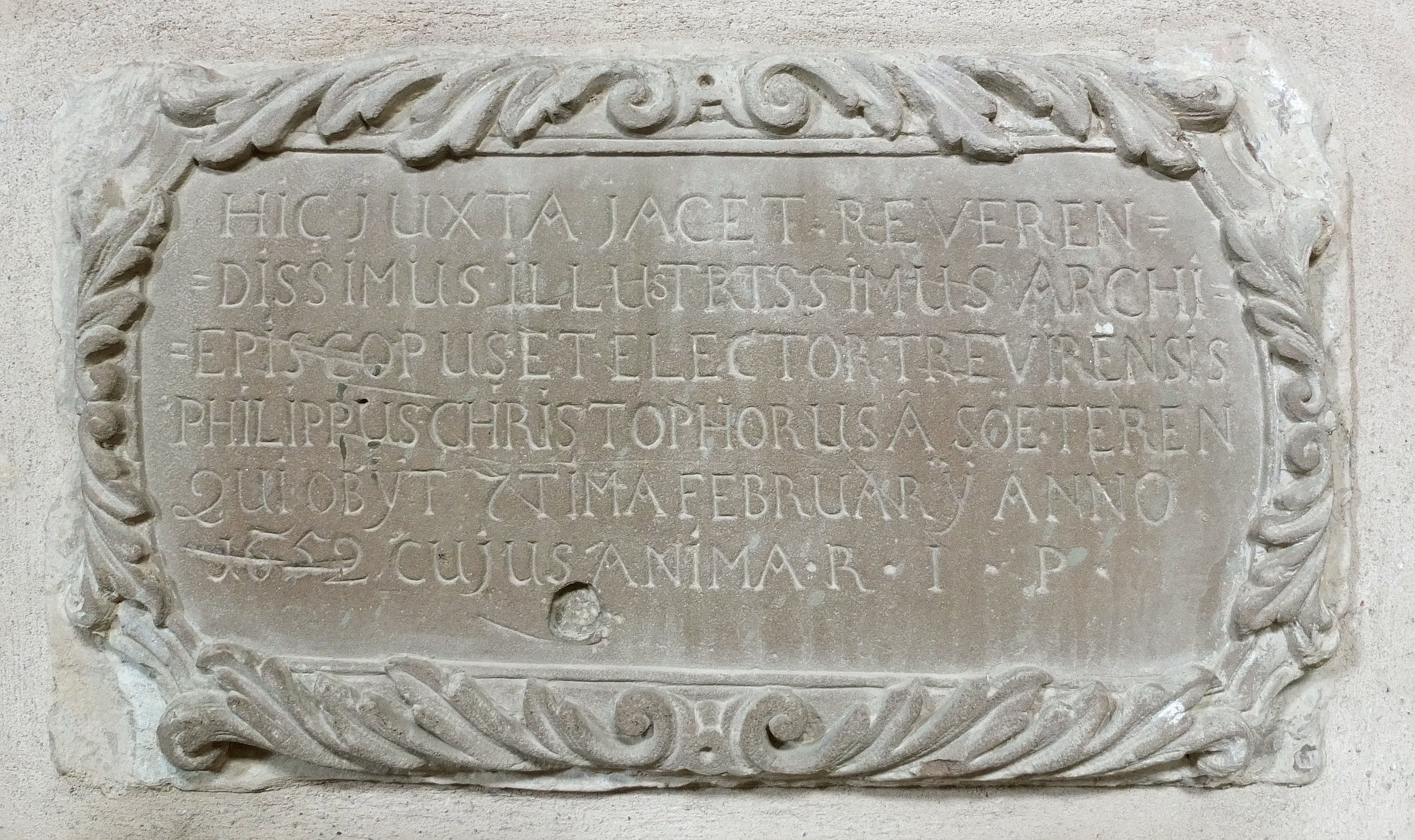 Epitaph for Philipp von Sötern († 1652), Archbishop-Elector of Trier (in the Cathedral of Trier). This is a photograph of an architectural monument.It is on the list of cultural monuments of Trier